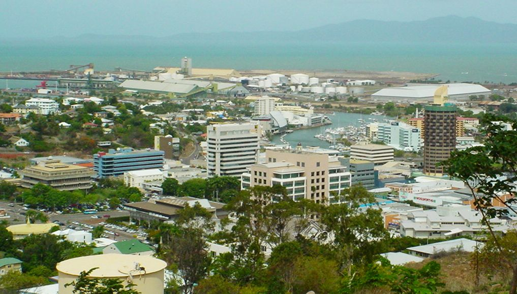 Townsville, view over the city centre. By Timo Sippala 2003